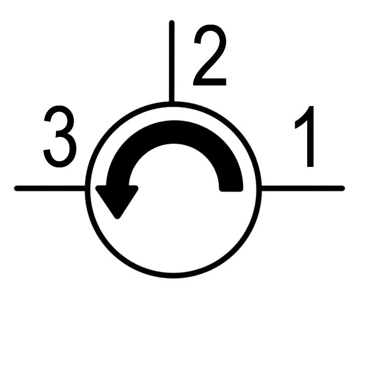 Optical circuit symbol of an Optical Circulator. This is also the ANSI Y32 standard symbol and IEC standard symbol for an electrical circulator (each waveguide or transmission line port is drawn as a single line, rather than as a pair of conductors)